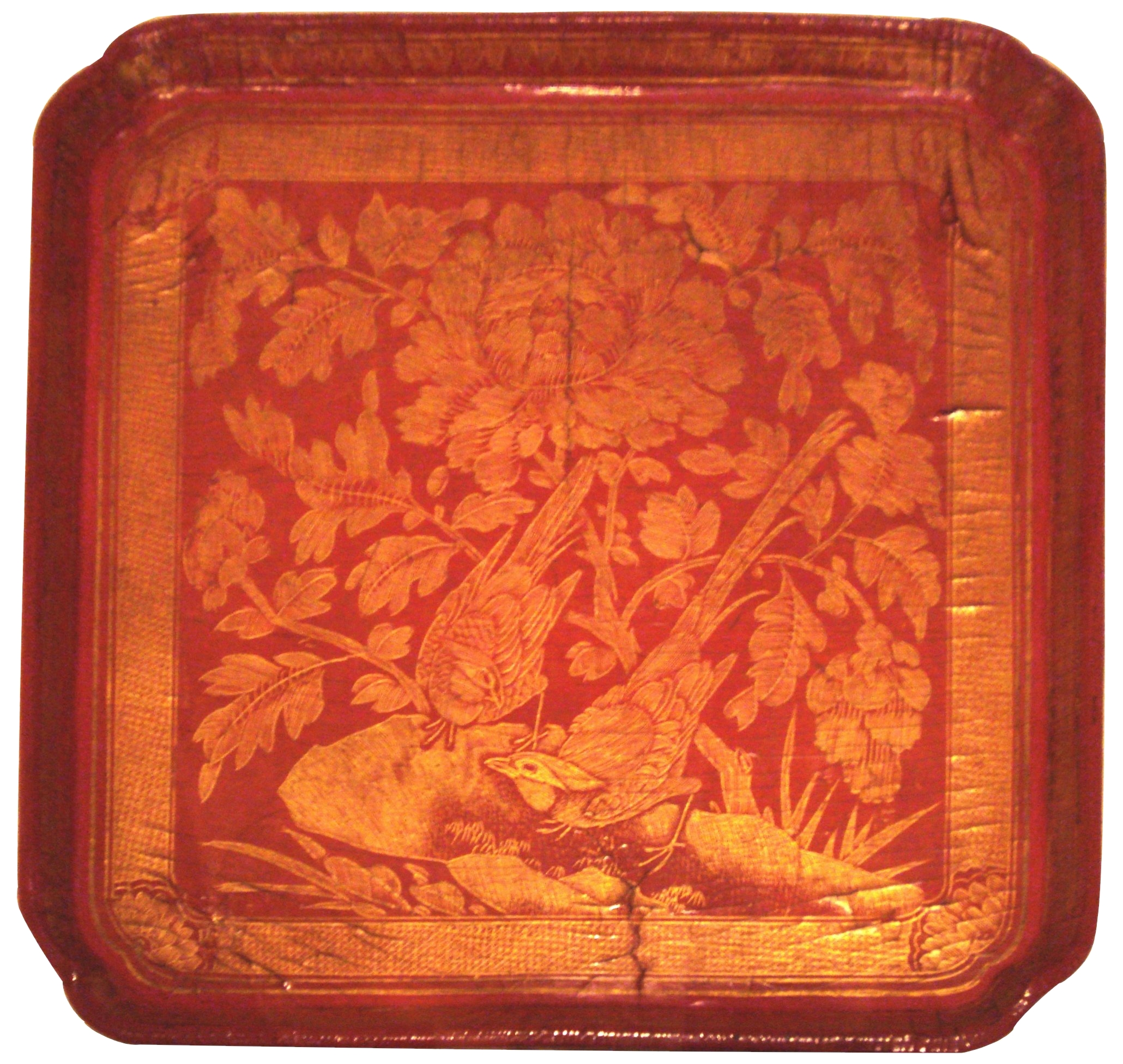 A Chinese red lacquer tray over wood with engraved golden foil, from the Song Dynasty (960–1279 AD), dated 12th to early 13th century. As the Freer and Sackler Galleries museum description states, in China the gold-engraving technique is called qiangjin. The museum caption states that this method has existed since roughly the 3rd century AD, although it was not until the Song Dynasty era that gold engravings were found on luxury lacquerwares. After a wooden tray was covered with multiple layers of cinnabar-colored lacquer, fine lines were then incised into the new surface. These incisions were then filled with an adhesive of clear lacquer, followed by the pressing of gold foil into the grooves. The two long-tailed birds and a peony plant depicted in this tray are symbolic of longevity and prosperity in Chinese culture, since the Chinese word for "long life" (shou) sounds similar to the words for long-tailed birds (dai shou). In his book Han Civilization (1982, New Haven: Yale University Press), Wang Zhongshu would firmly disagree with the Freer and Sackler Gallery Museum description about the date of the oldest lacquerware luxury goods using the incising and gold foil technique, which he says was called pingtuo. From an ancient Han Dynasty (202 BC – 220 AD) tomb at Guanghua in Hubei province, archaeologists discovered lacquerwares having "incised tiger, hare, bird, and other animal and cloud-scroll designs were filled in with gold so that they resemble the gold- and silver-inlaid decorations on bronzes...Individual motifs were cut out from thin sheets of gold or silver and attached to the lacquered surface of the vessel, resembling what was later known as pingtuo" (Page 82).